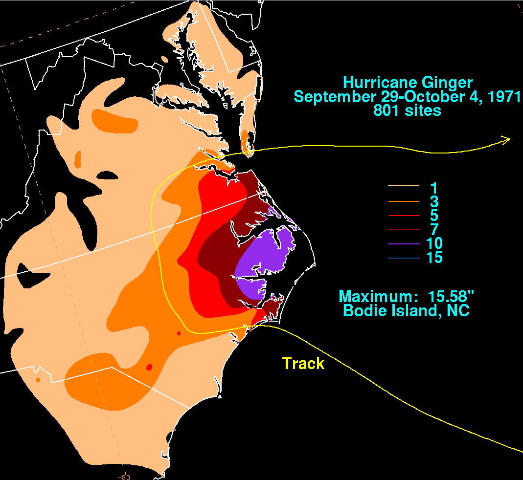 Storm total rainfall map of Hurricane Ginger during September and October 1971.